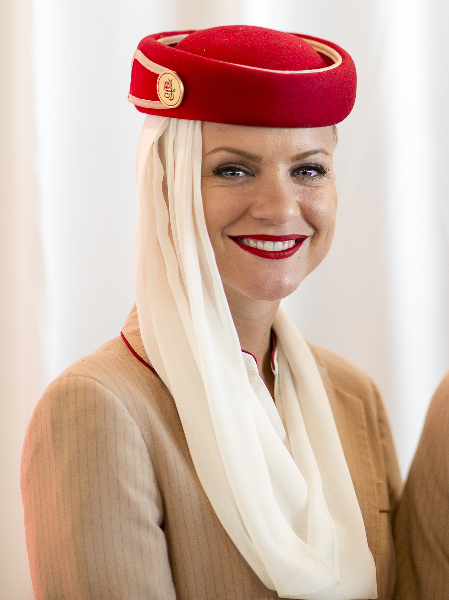 Emirates employees at the inaugural flight to Brussels